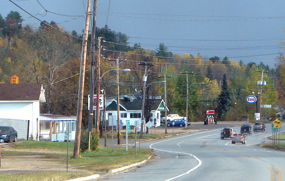 Highway 117 through Grand-Remous, Quebec, Canada